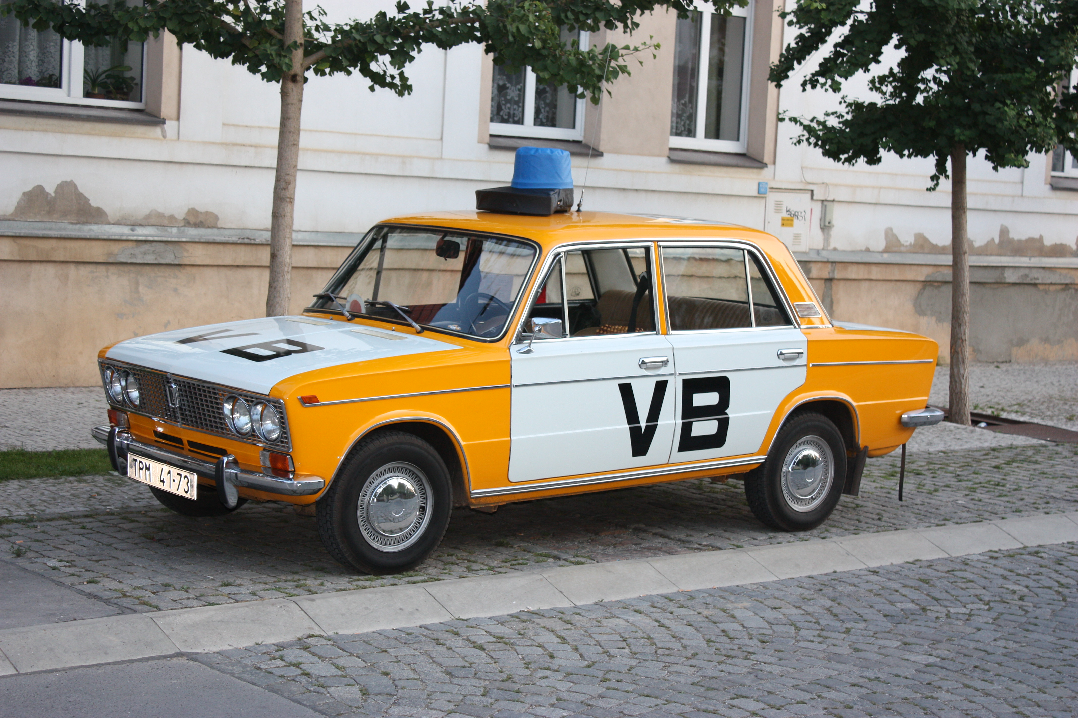 A replica of the Czechoslovak police car - VB - Veřejná bezpečnost - Public Security (from 1980s) in Dobřichovice.